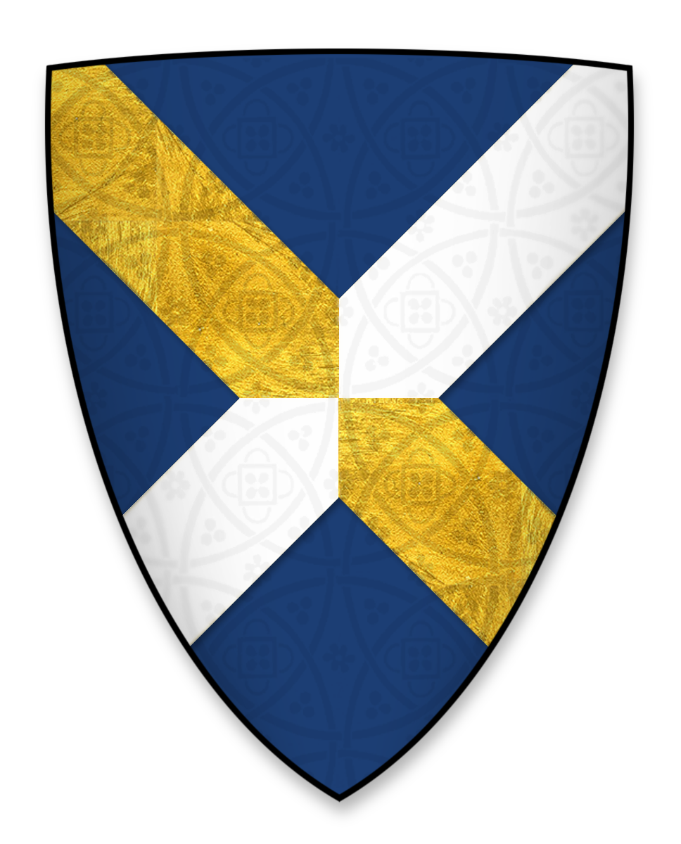 Arms displayed by Jocelin of Wells, Bishop of Bath and Glastonbury, at the signing of Magna Charta